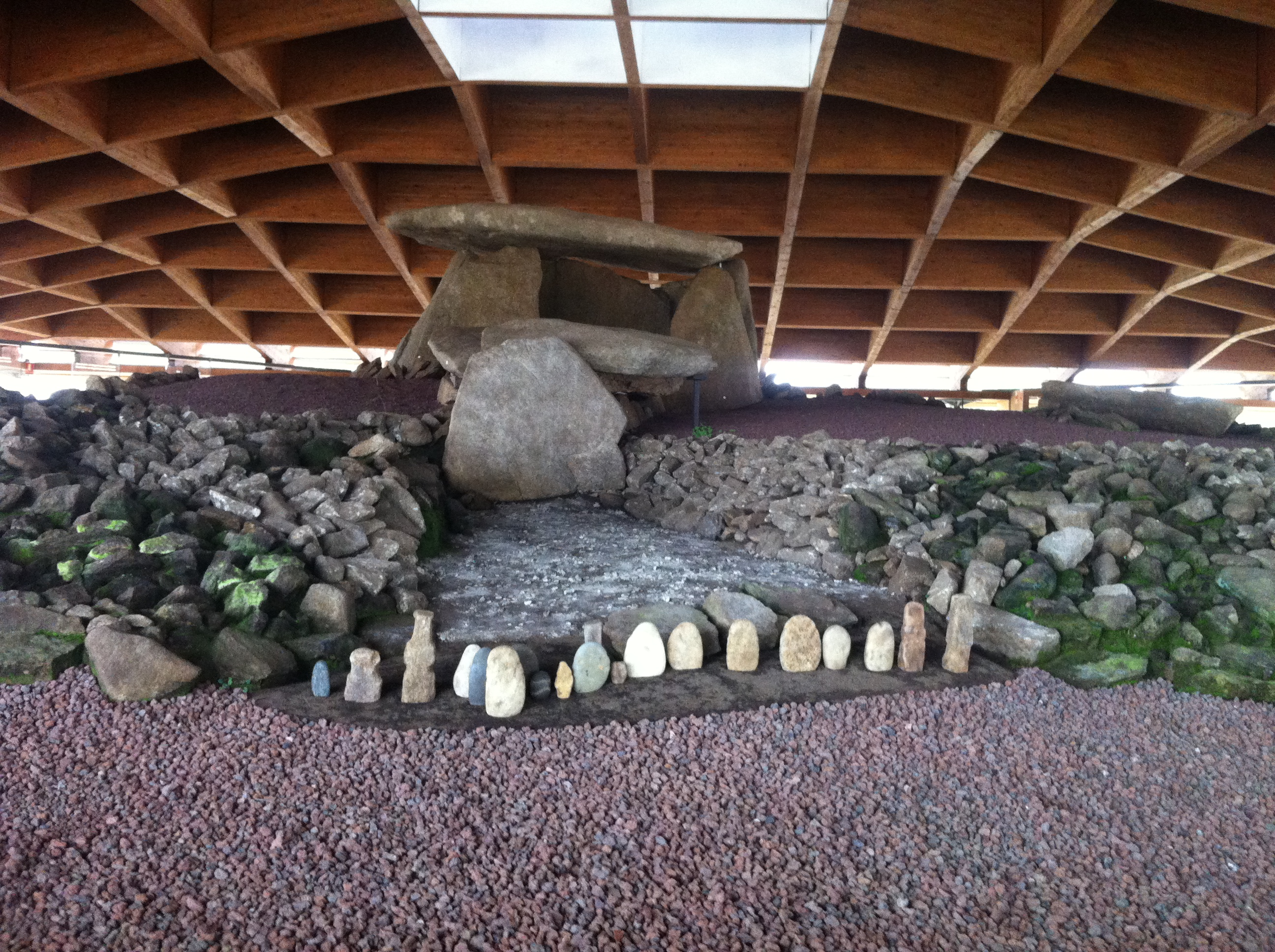 Entrance of dolmen de Dombate with stone idols.